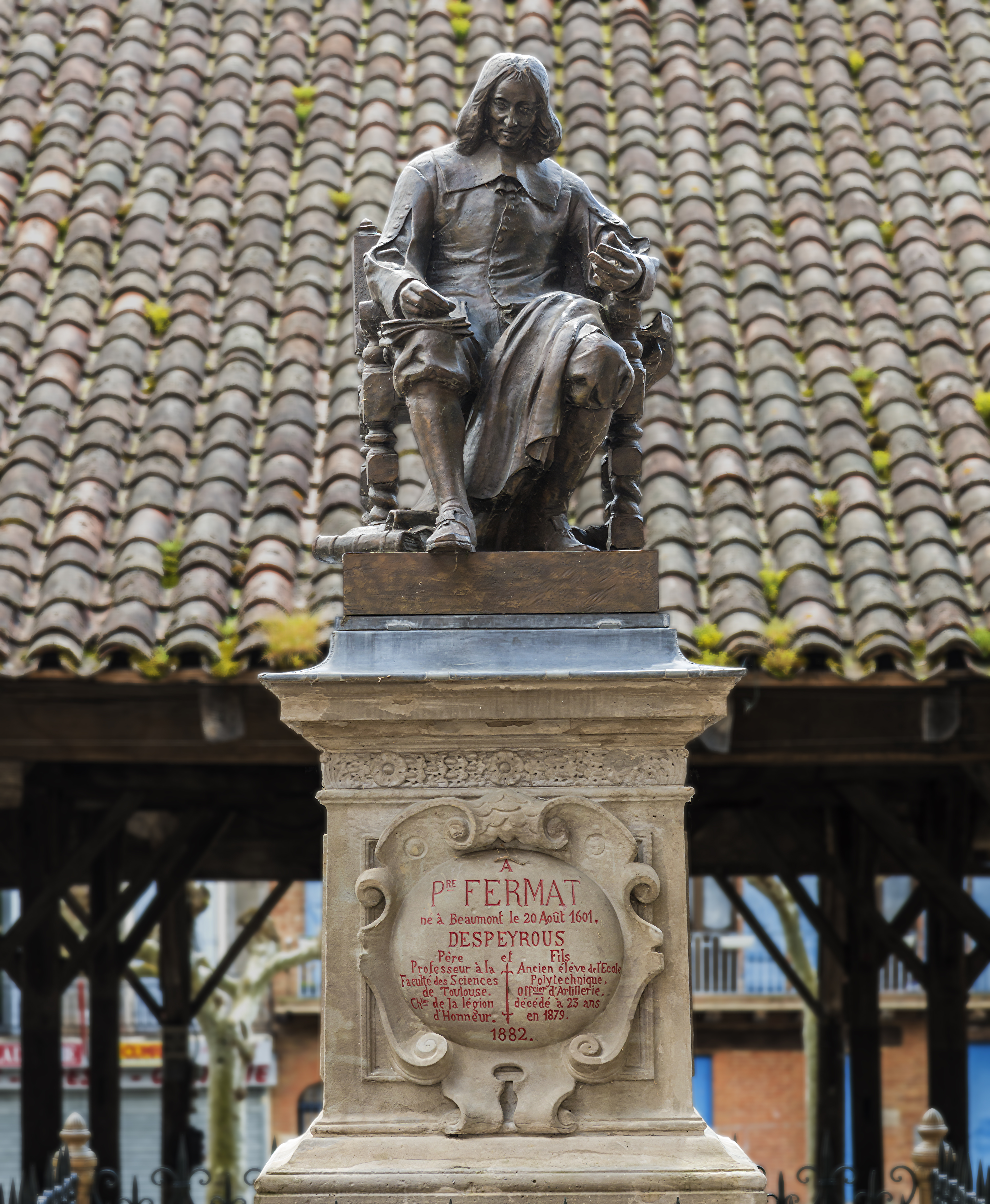 The Monument to Pierre de Fermat by Alexandre Falguière in Beaumont-de-Lomagne Tarn-et-Garonne France.